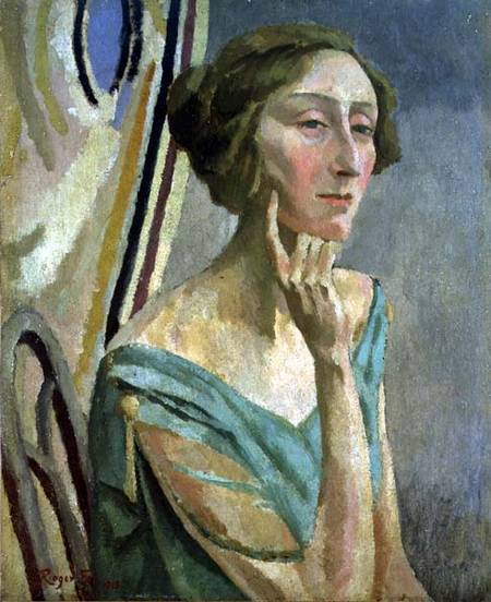 Portrait of Edith Sitwell (1887-1964)